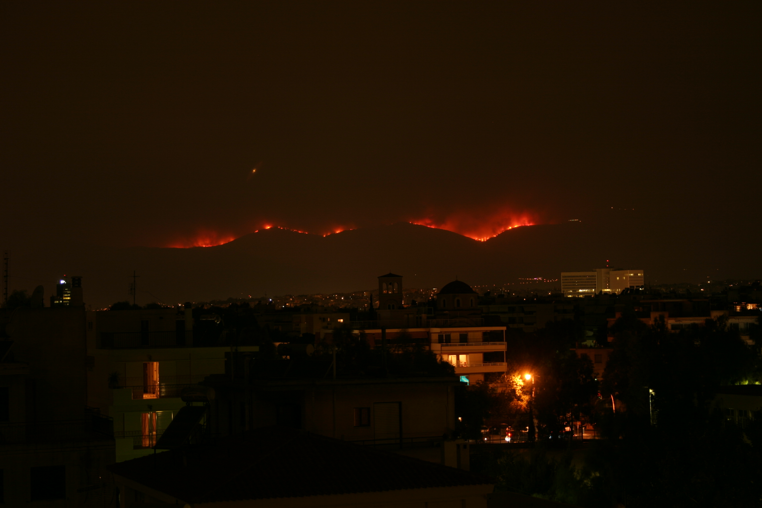 Fire in progress at Parnitha Mount, outskirts of Athens, Greece, on the night of 28 June 2007. Photo taken from 16km away.